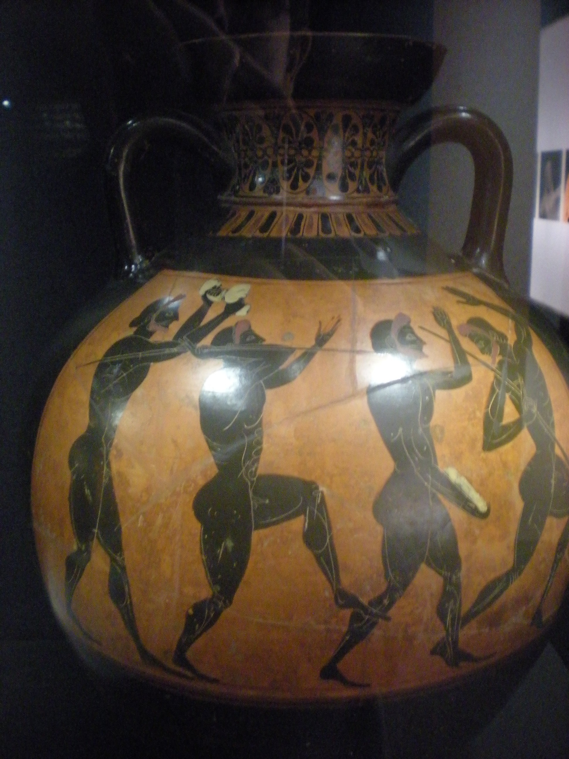 Side A: Athena to left, between two Doric columns, aegis with scale-pattern and snake-border; shield with device of a wheel in white. Two inscriptions. Side B: Four athletes engaged in the pentathlon. Done C. in Athens. The beauty of the body belongs to the exhibition, in the MARQ. Form leaves from the permanent exhibition of the British Museum.